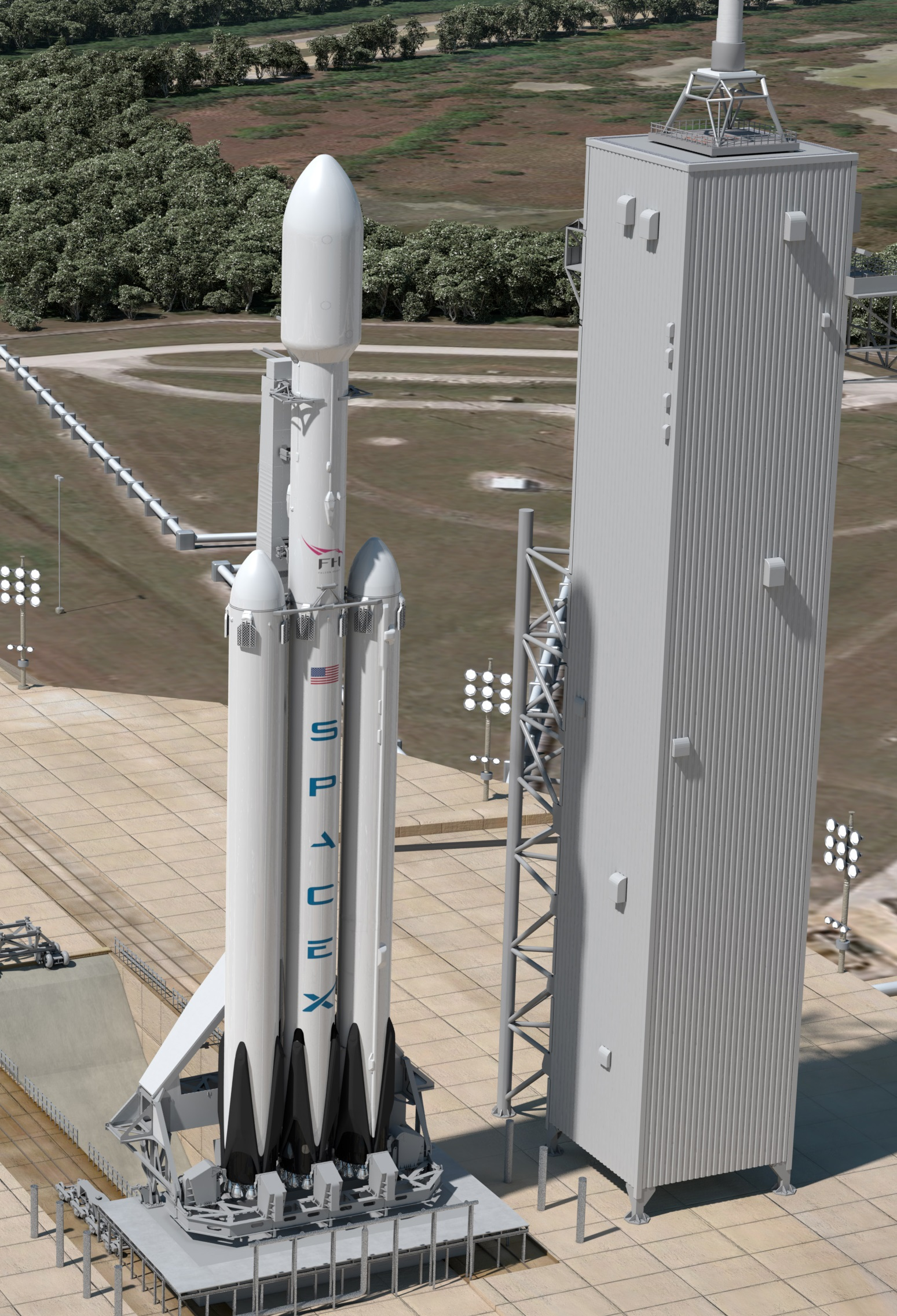 Official Artist Representation of Falcon Heavy on launchpad. Pad 39A at Kennedy Space Center will be future home to NASA Commercial Crew Program launches and Falcon Heavy missions.